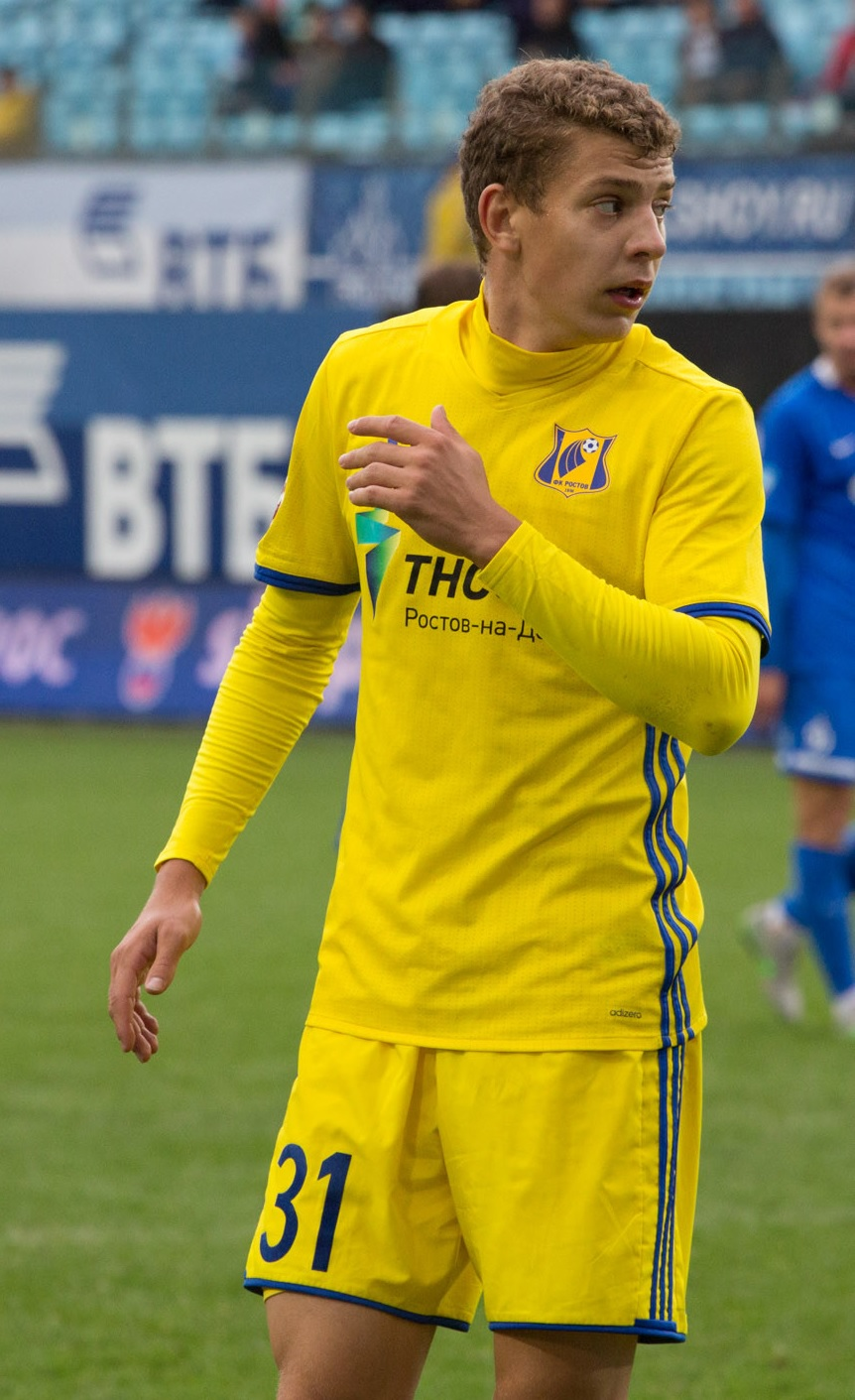 Ruslan Shapovalov with FC Rostov in a game against FC Dynamo Moscow.